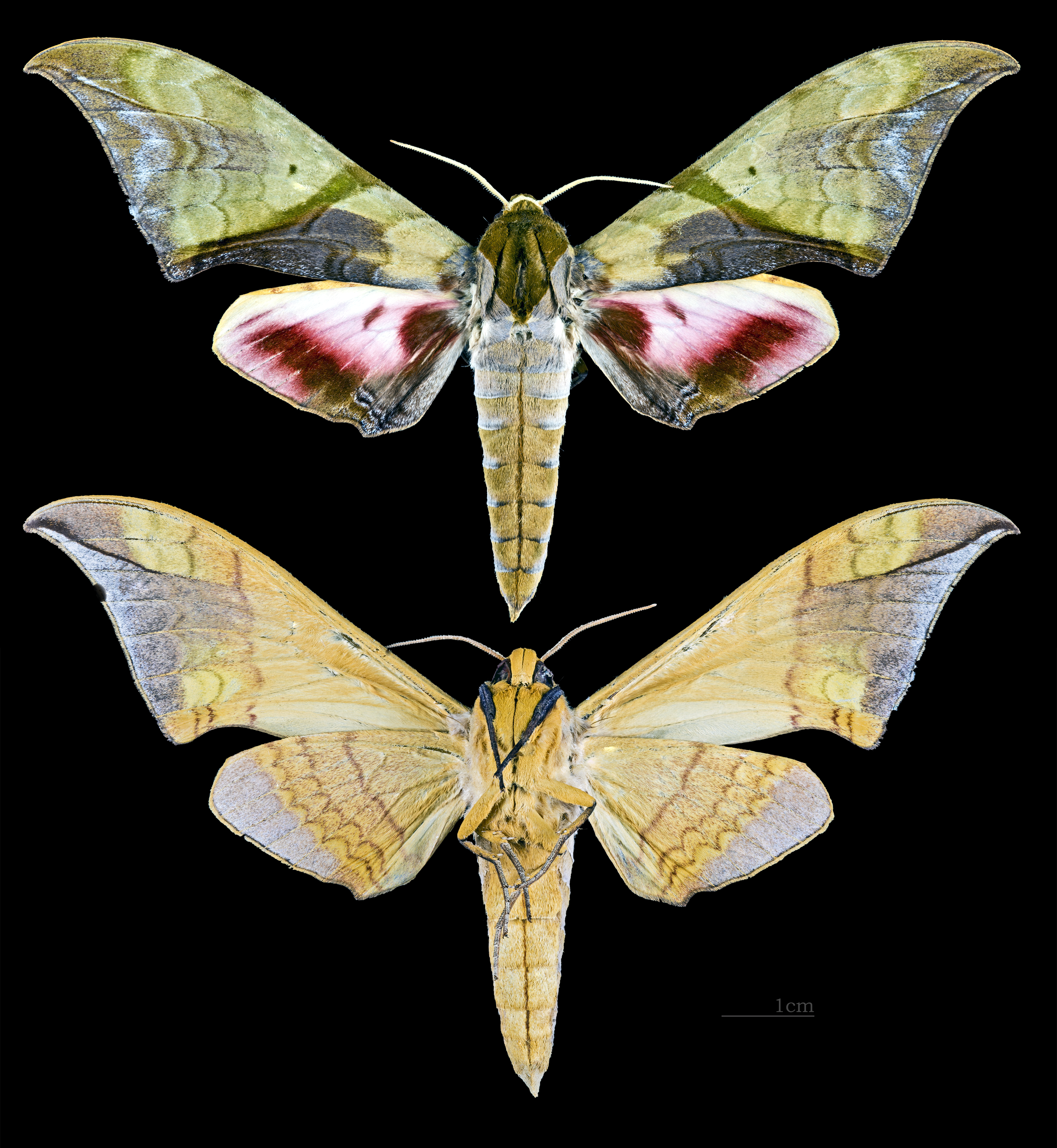 Callambulyx rubricosa rubricosa - Two views of same specimen Collection of the Mathematician Laurent Schwartz